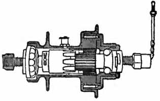 Diagram of the Hub two-speed gear for a bicycle.